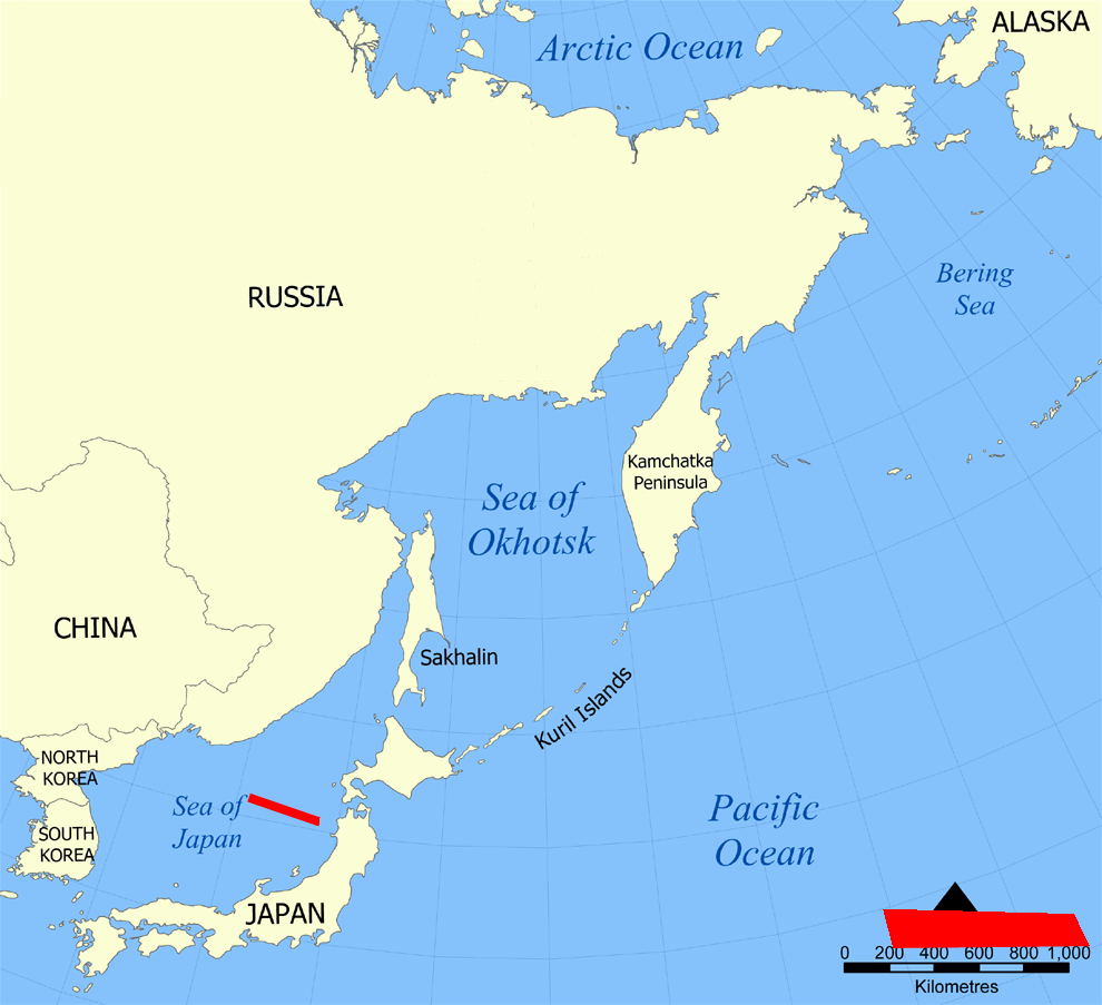 This map shows the approximate areas of the ICAO-reported danger zones for the launch of Kwangmyŏngsŏng-2 by North Korea.